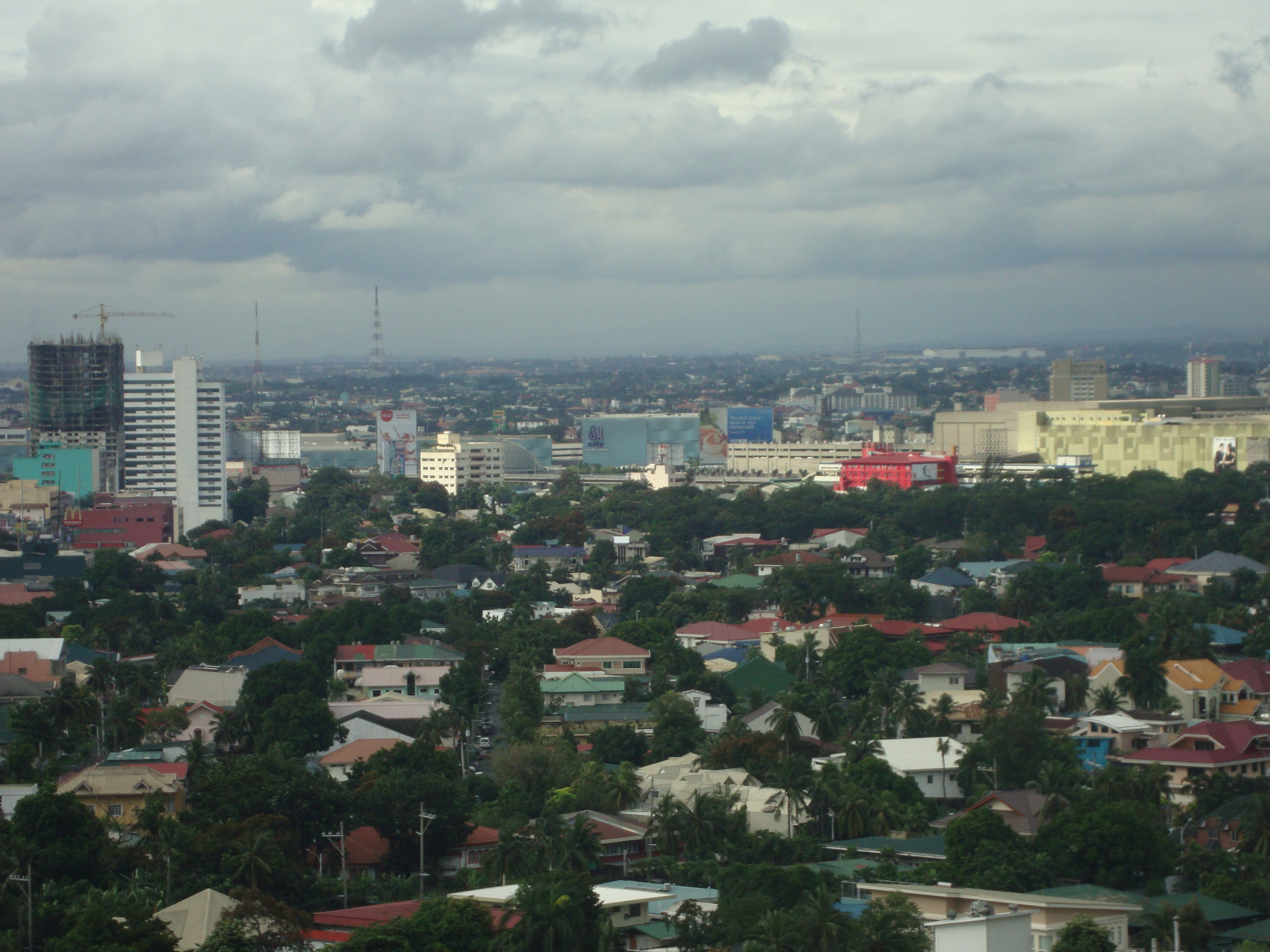 North Triangle and Philam Homes in Quezon City